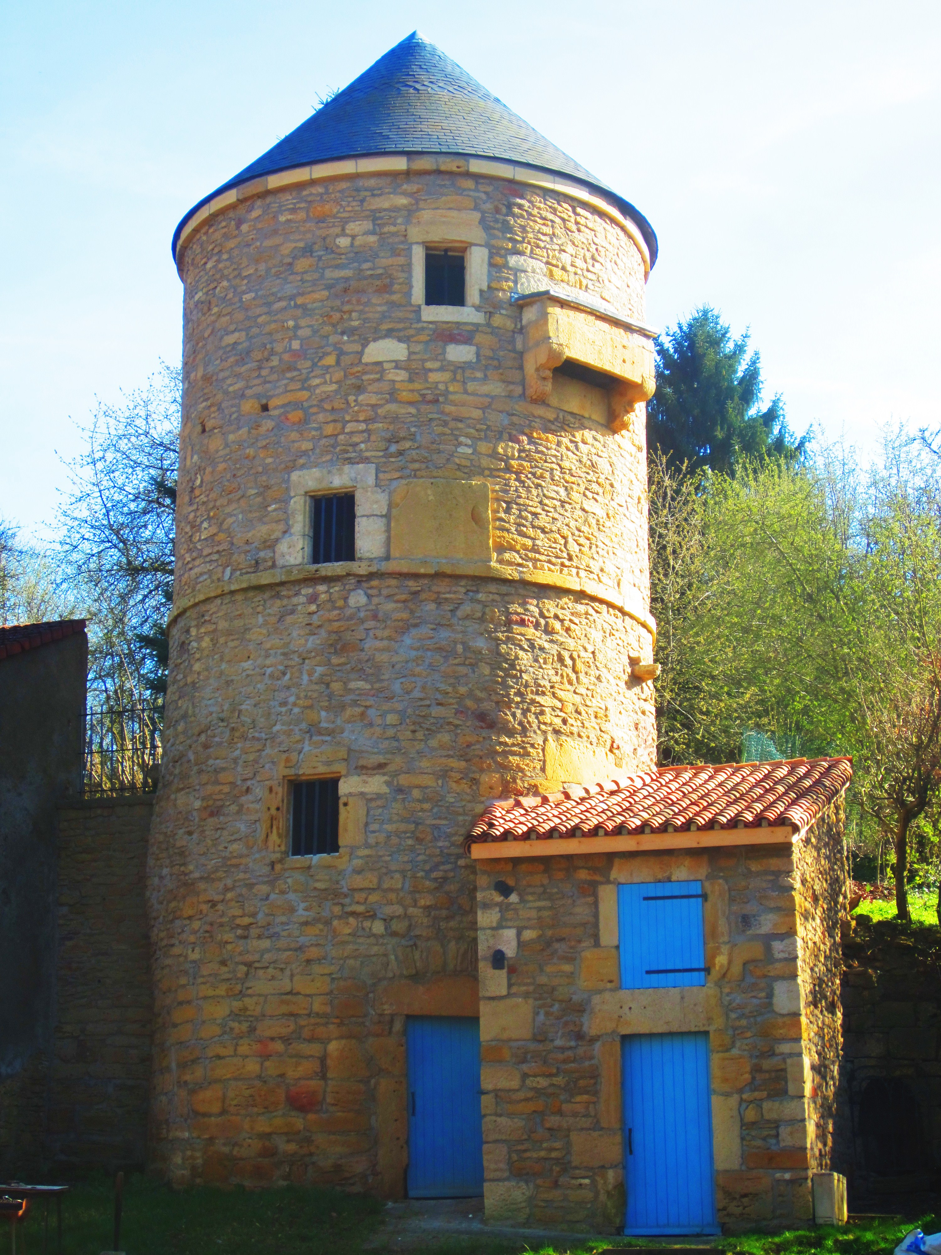 St Pancre castle tower